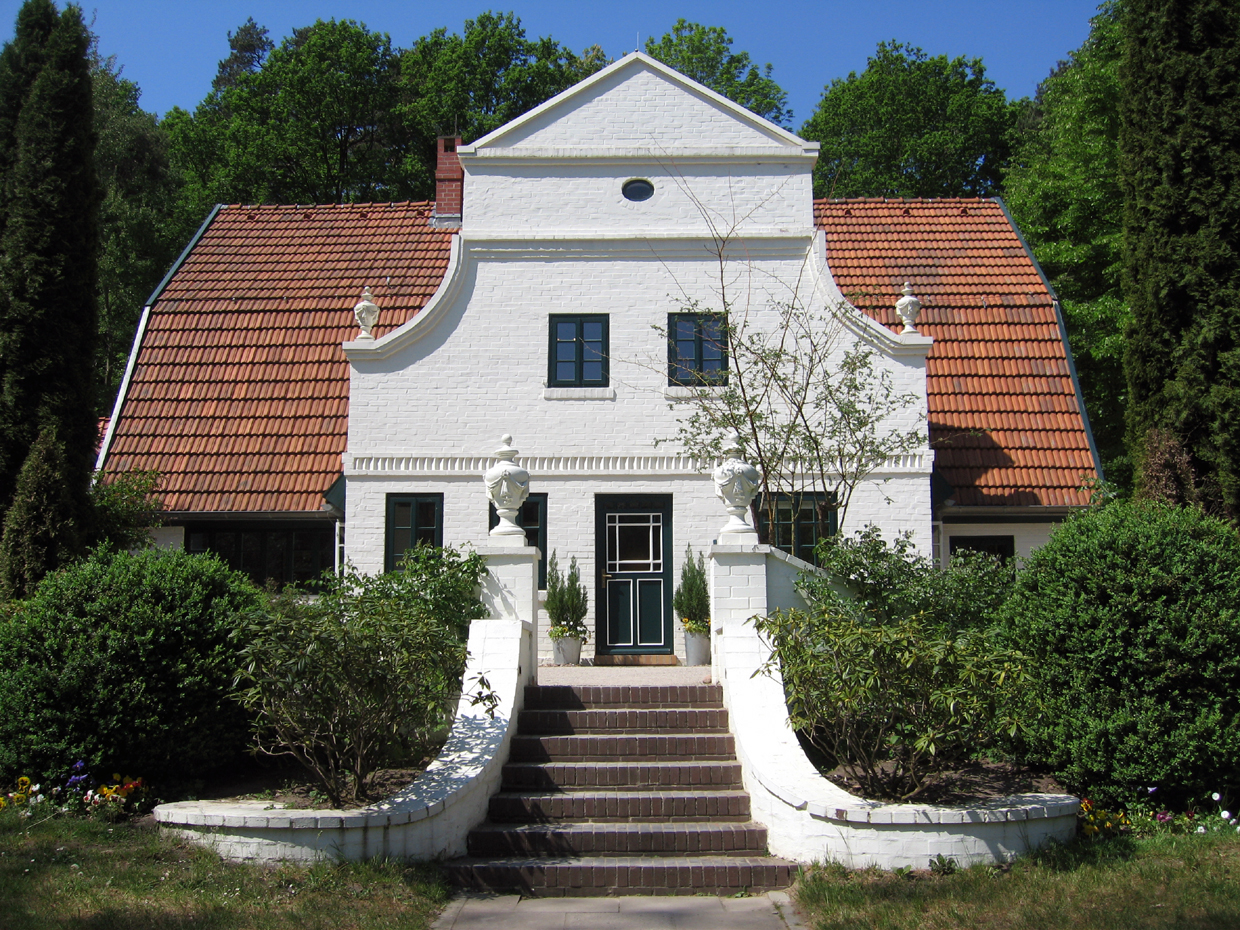 The Barkenhoff (birches farmyard) in Worpswede, Germany